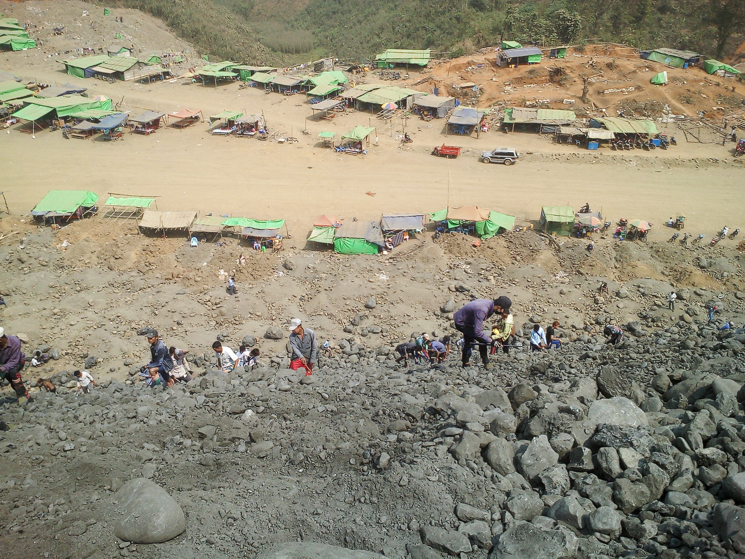 Almost people are youth coming from different parts of the nation who spent most of time by hardworking that place. #KachinState #Myanmar